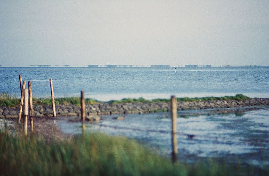 Grevelingenmeer. Eigen foto uit 1981. I took this photo myself.